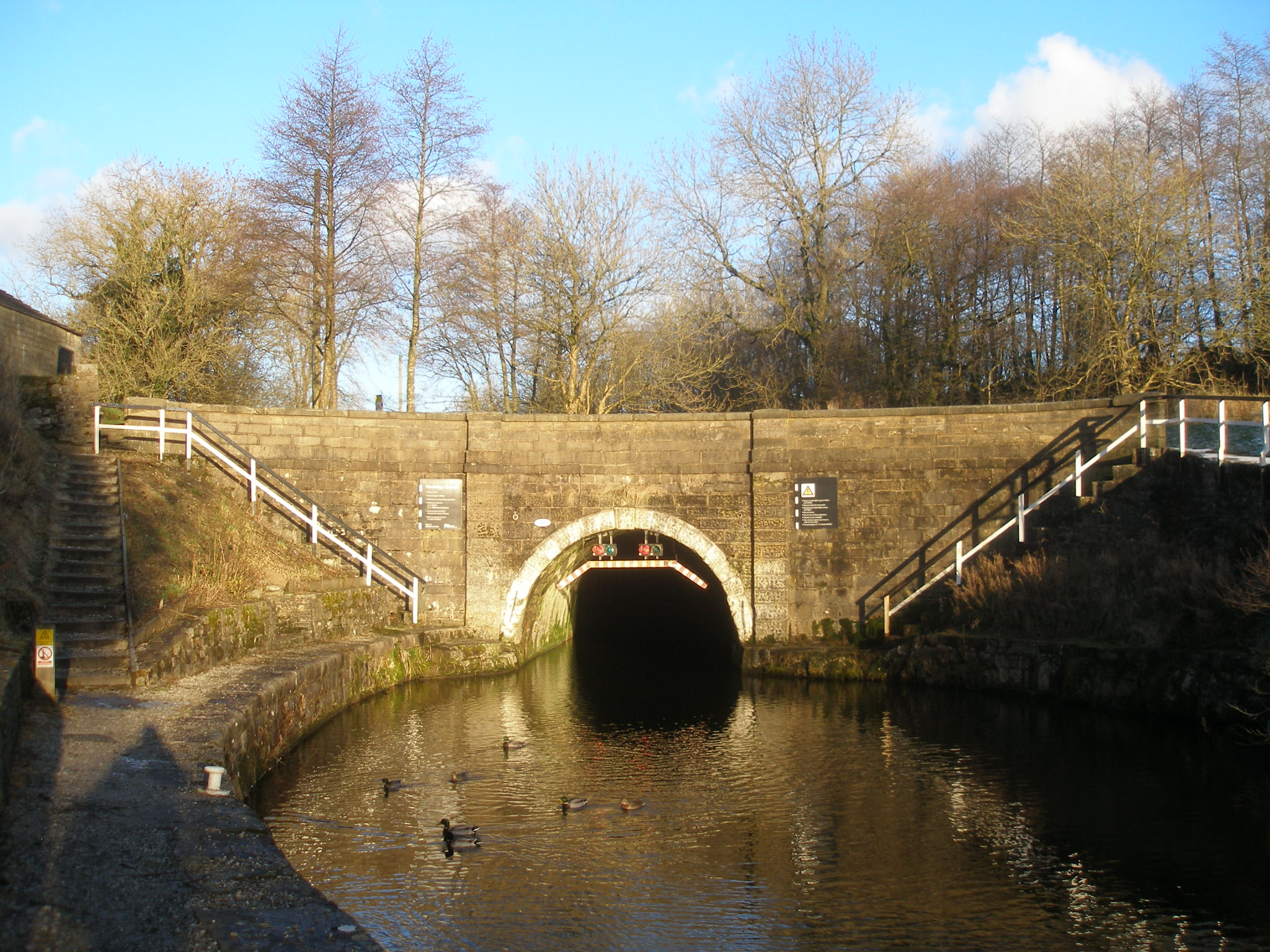 Photograph of the southern entrance to Foulridge Tunnel, Colne, Lancashire